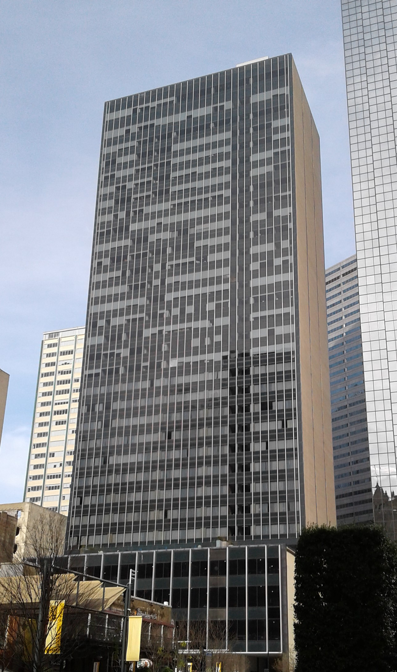 South facade of 1600 Pacific, or LTV Tower, in Dallas